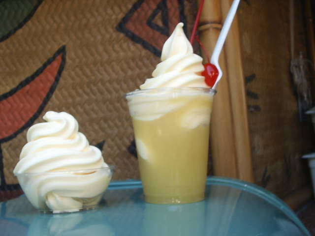 Photograph of Dole Whip frozen dessert and Dole Whip float at Disneyland on September 9, 2006.